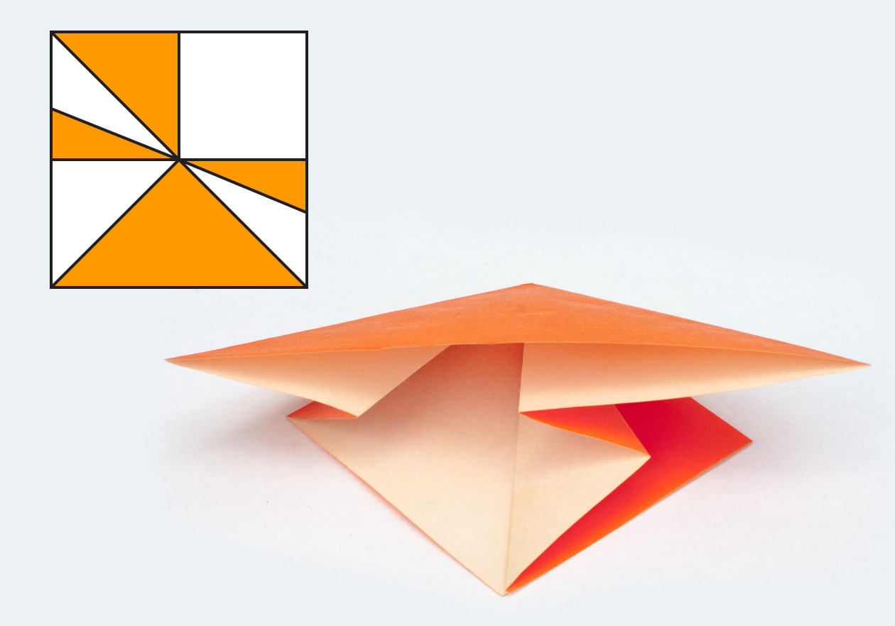 Kawasaki's theorem: a single-vertex crease pattern can be flat-folded if and only if the two alternating sets of angles around the crease have the same total angle.